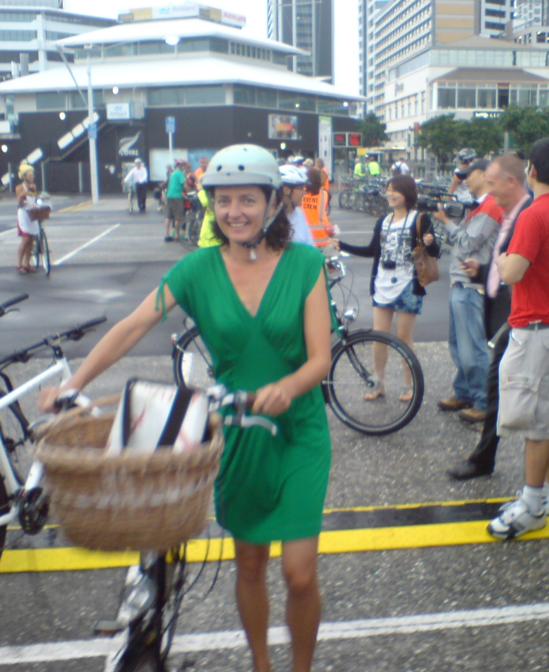 Pippa Coom arriving to a "bike to work" breakfast event on Te Wero Island in Auckland, New Zealand. The press is ignoring her a bit, because Mayor Len Brown has also arrived on a bike, just behind her.